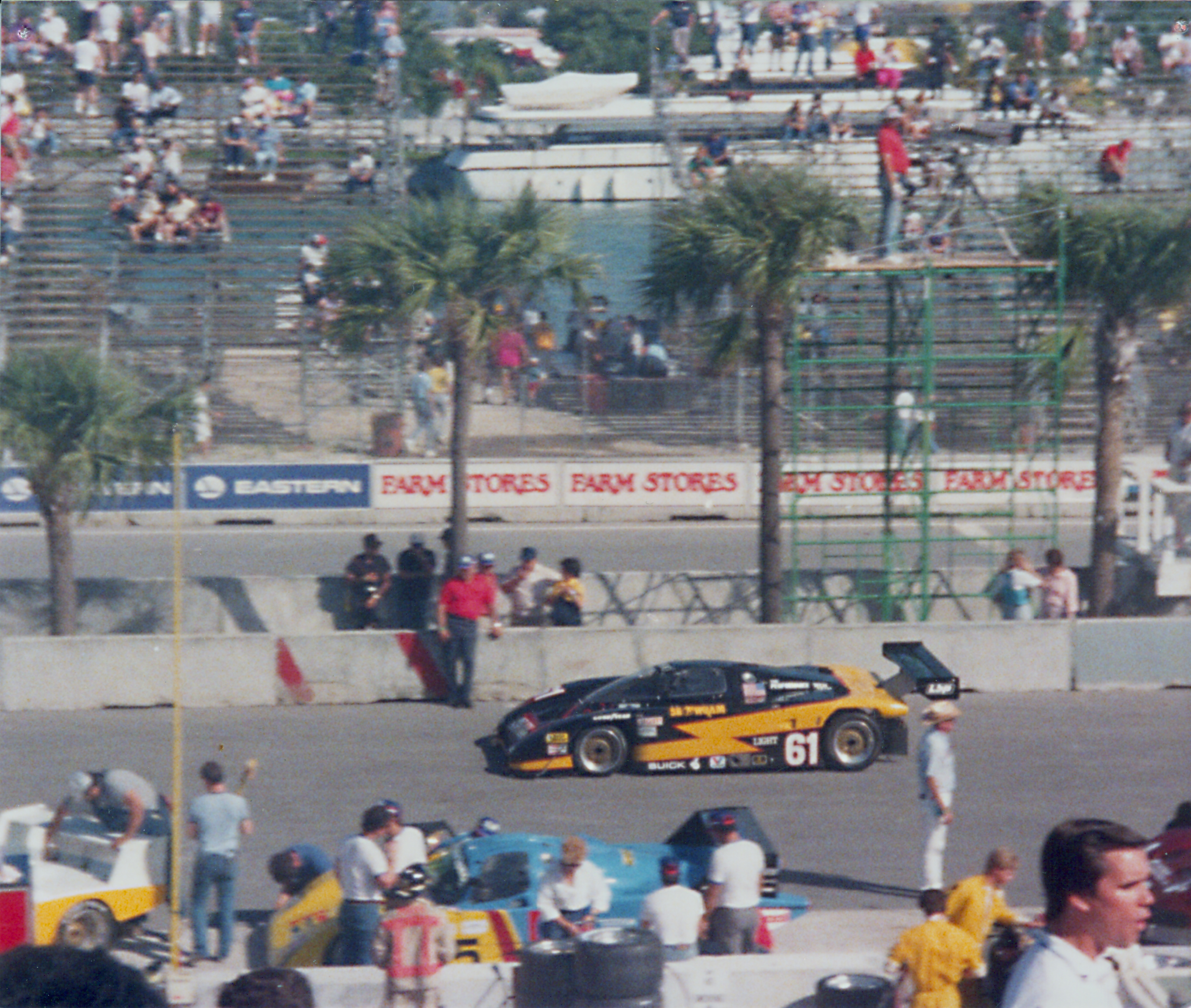 The Performance Tech-entered Argo JM19 Buick #61 (Lights) in the pits during practice for the 1987 IMSA Miami Grand Prix. Brent O'Neill and Jan Thoelke were the drivers.